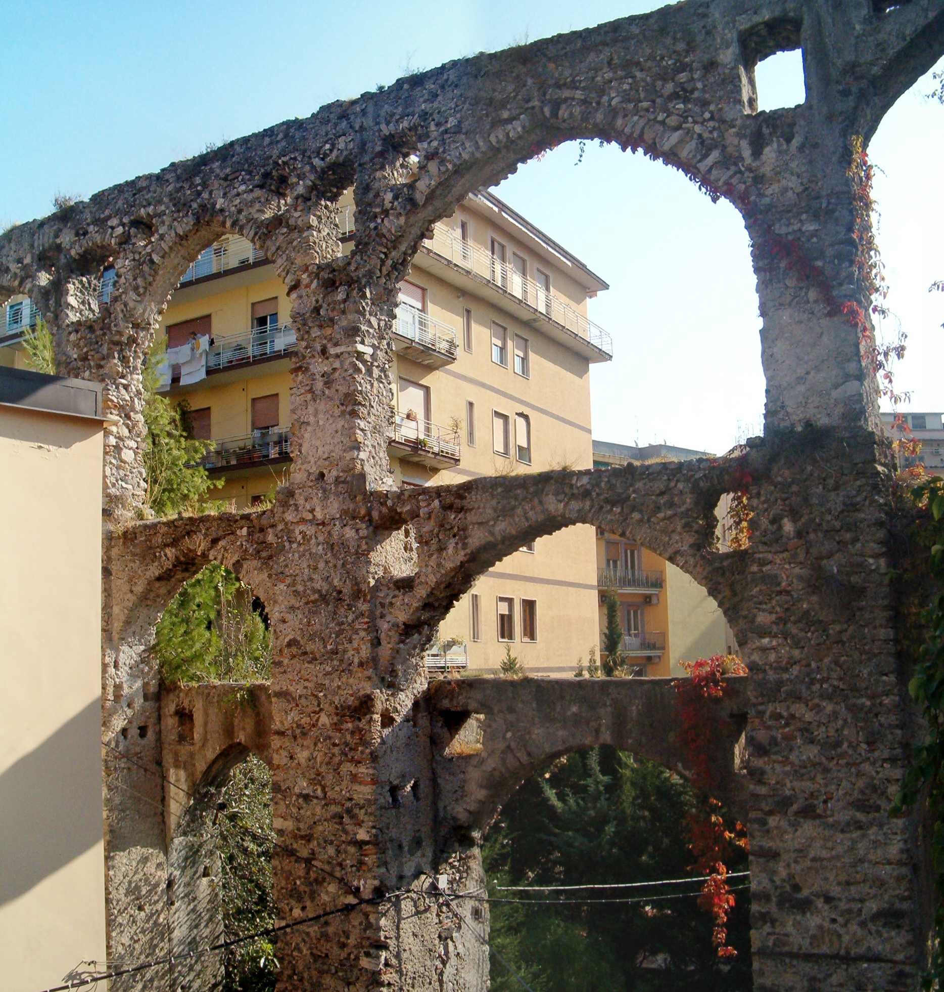 Salerno's Aqueduct